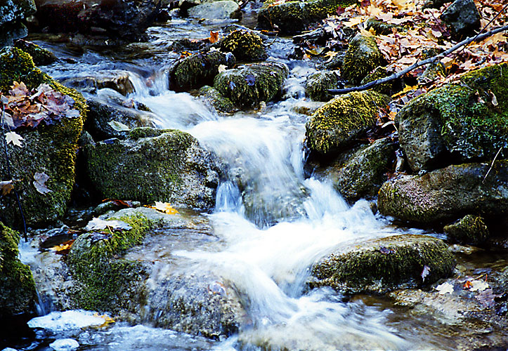 Bruce Trail - Halton, Ontario, Canada